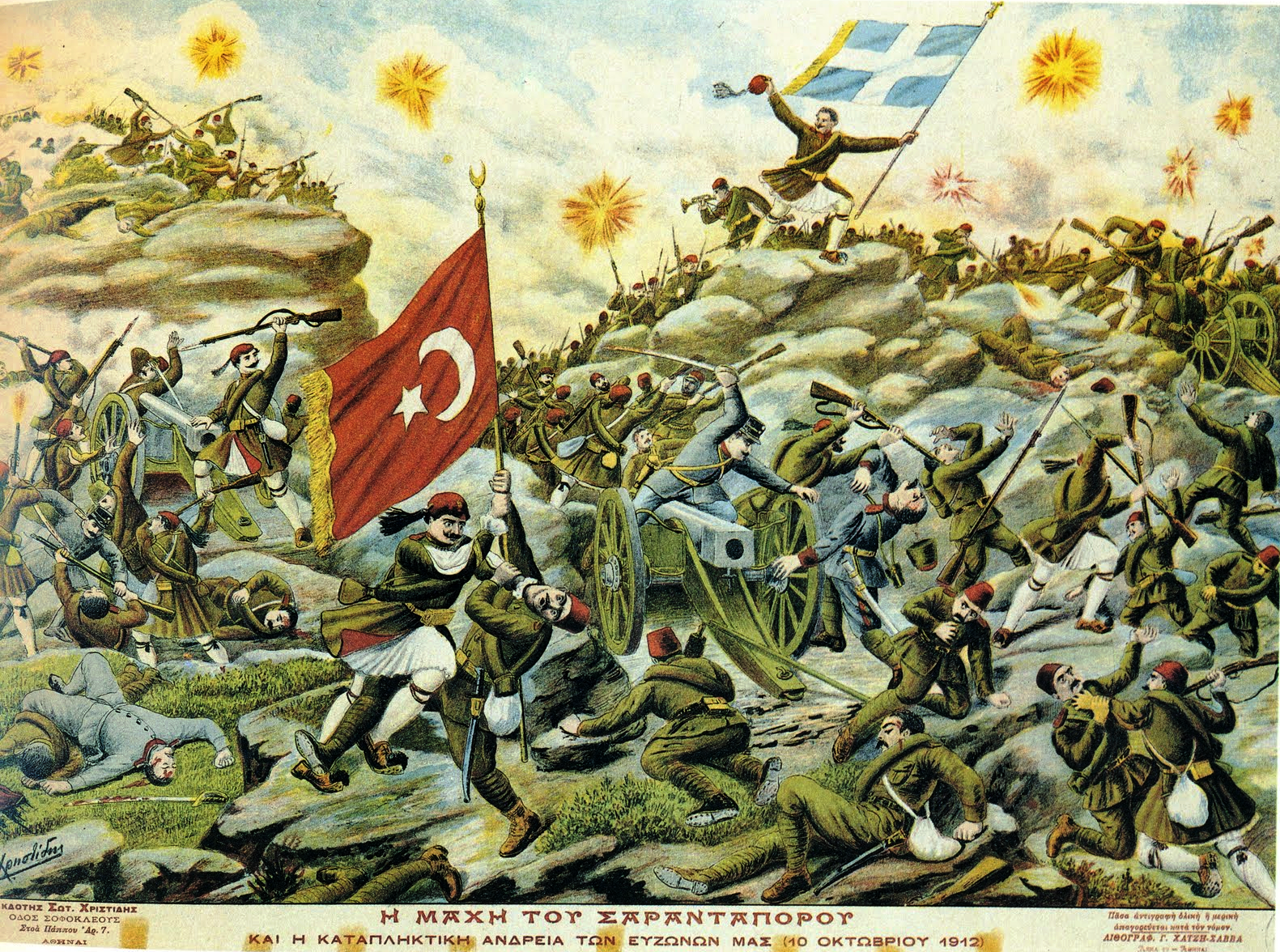 Lithograph with a fanciful depiction of the Battle of Sarantaporos during the First Balkan War